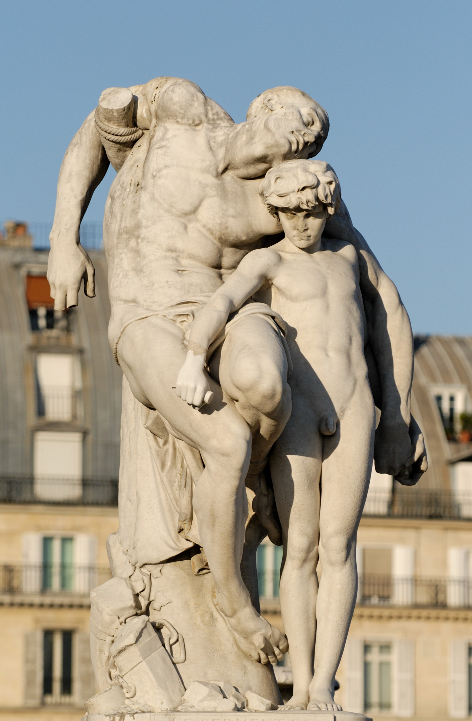 The Oath of Spartacus by Louis-Ernest Barrias (French, 1841–1905). Marble, 1871. In the Tuileries Gardens, Paris.